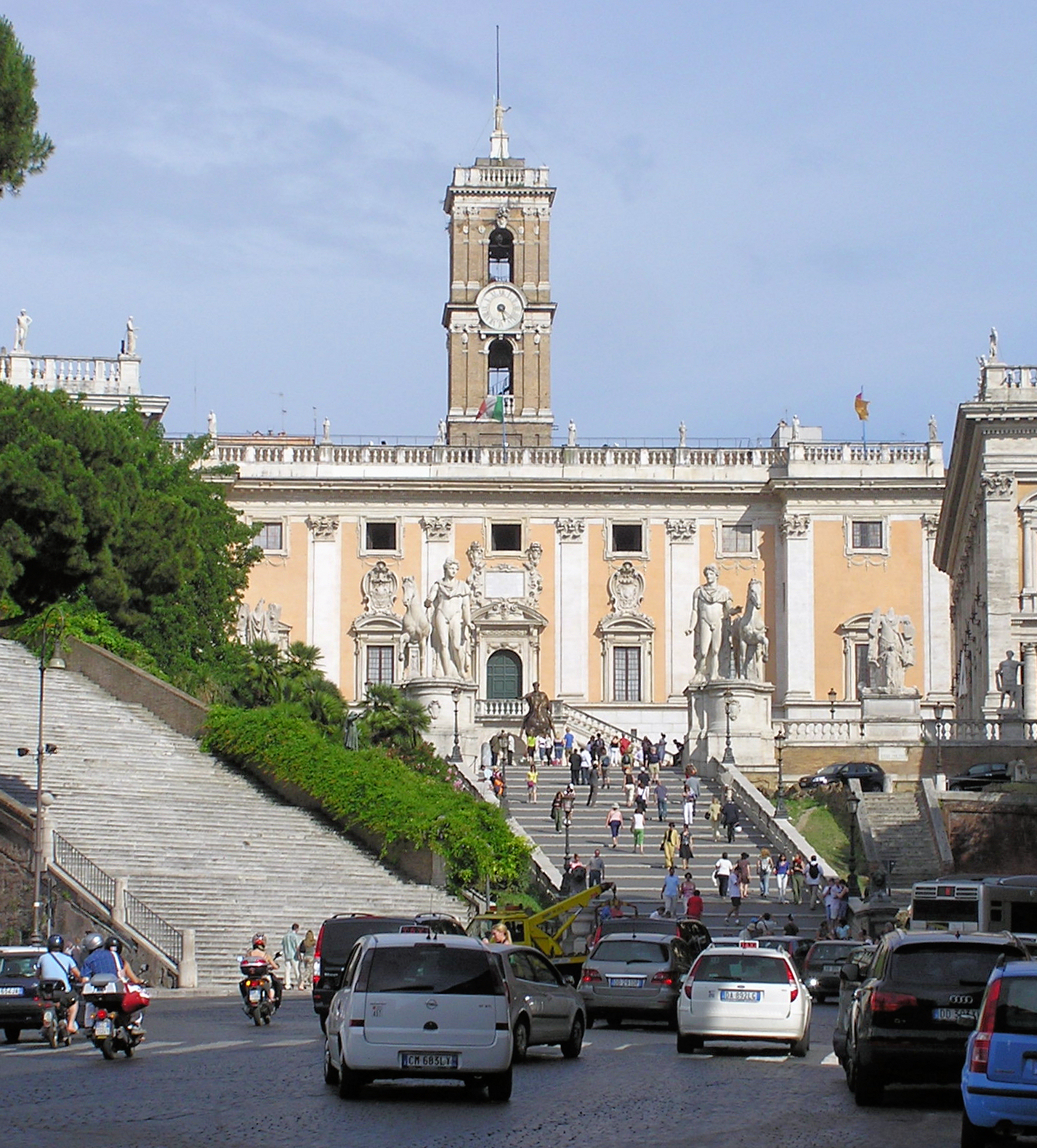 The cordonata (a shallow step-less ramp), designed by Michaelangelo, leading from Via del Teatro Marcello up to Piazza del Campidoglio, Rome, Italy. The two Roman statues at the top of the steps are the mythical twins Castor and Pollux, placed there in 1583. The Piazza was designed in the 1530s by Michaelangelo for Pope Paul III. The building opposite the top of the steps (with the tower) is Palazza Senatorio, Rome's City Hall. The massive flight of 134 steps, on the left, leads up to the church of Santa Maria in Aracoeli.